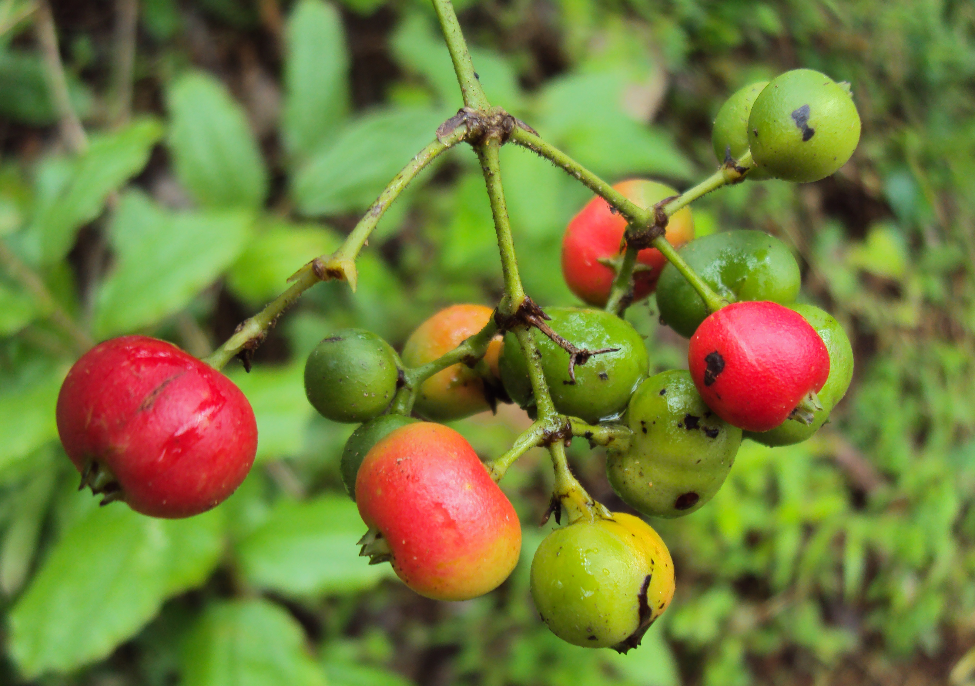 Ixora malabarica fruits